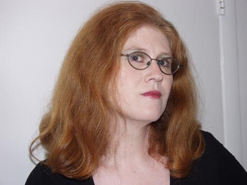 This is a picture of me, Nancy Collins, taken in 2004. I avow that I am the person this wikipedia entry is about.